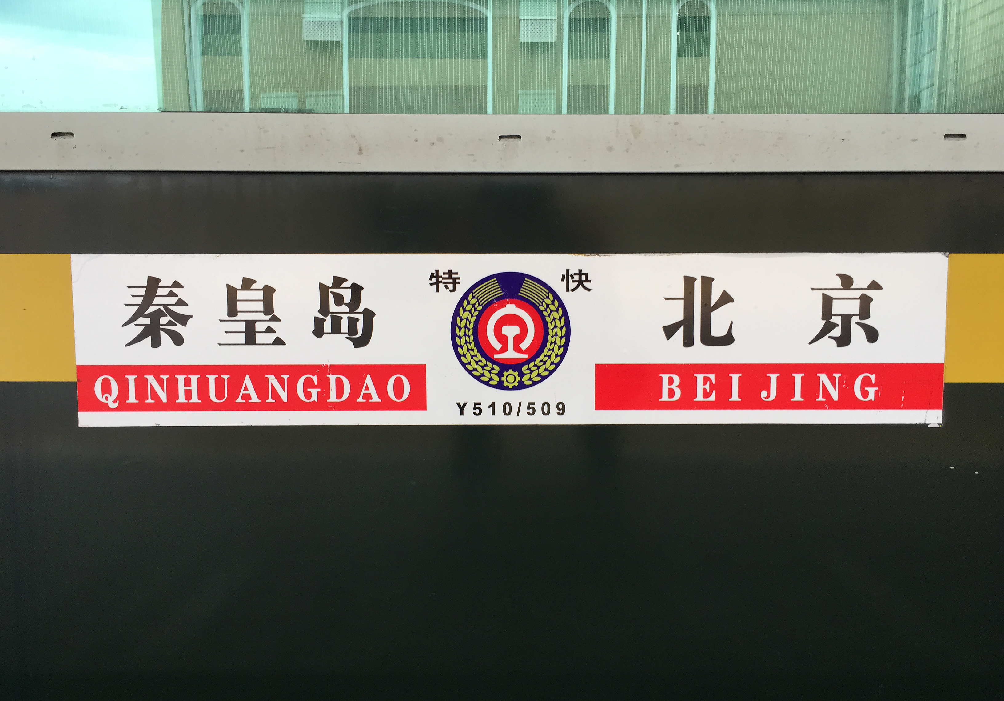 Finally made it to this legendary train.